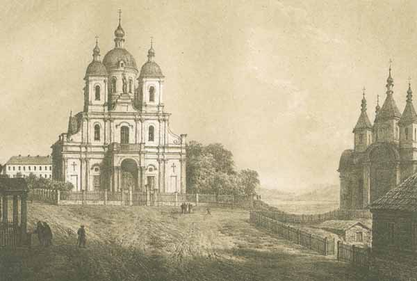 Catholic Church in Białyničy. Napaleon Orda, XIX century